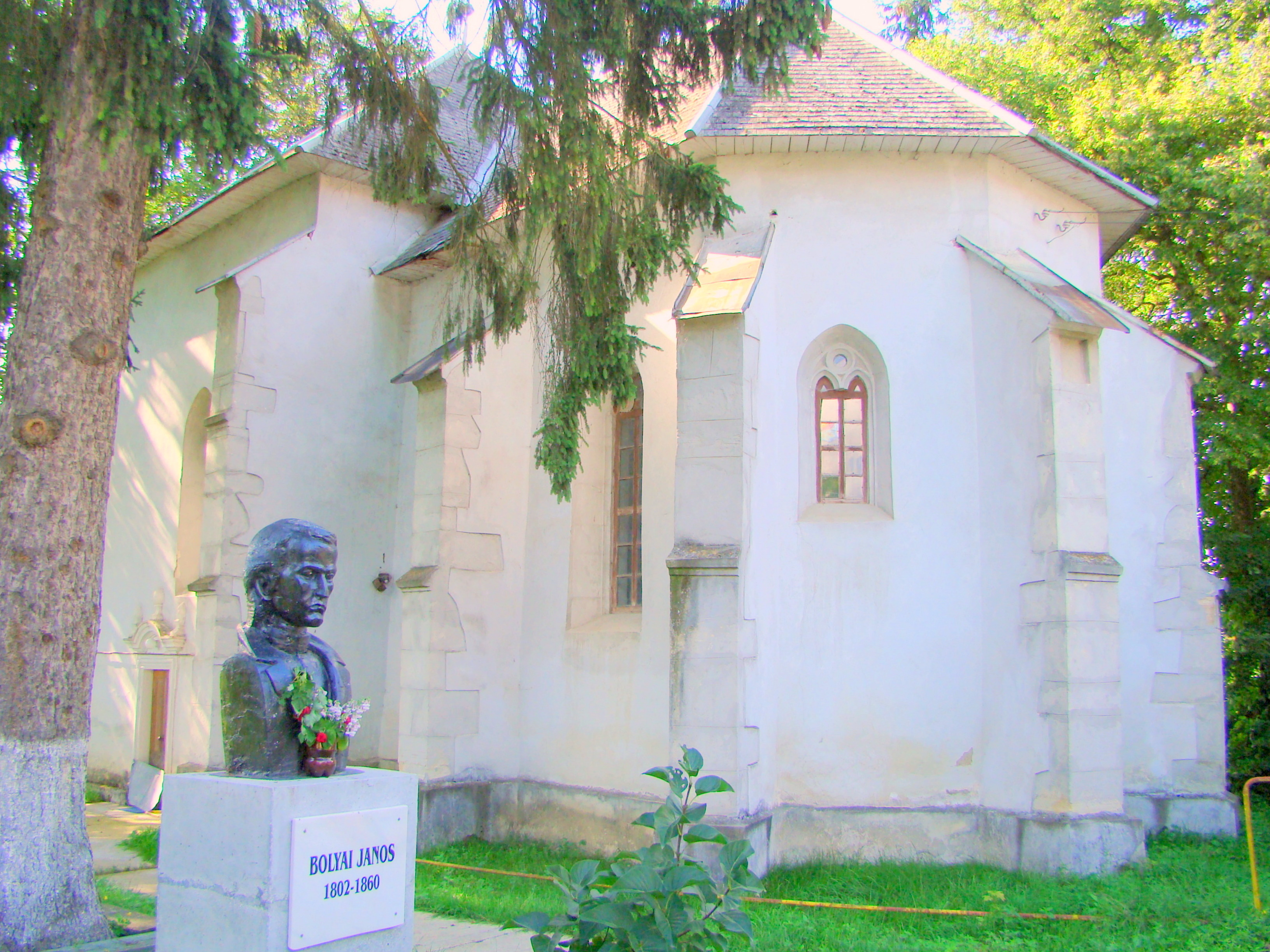 Reformed church in Nușeni, Bistrița-Năsăud county, Romania